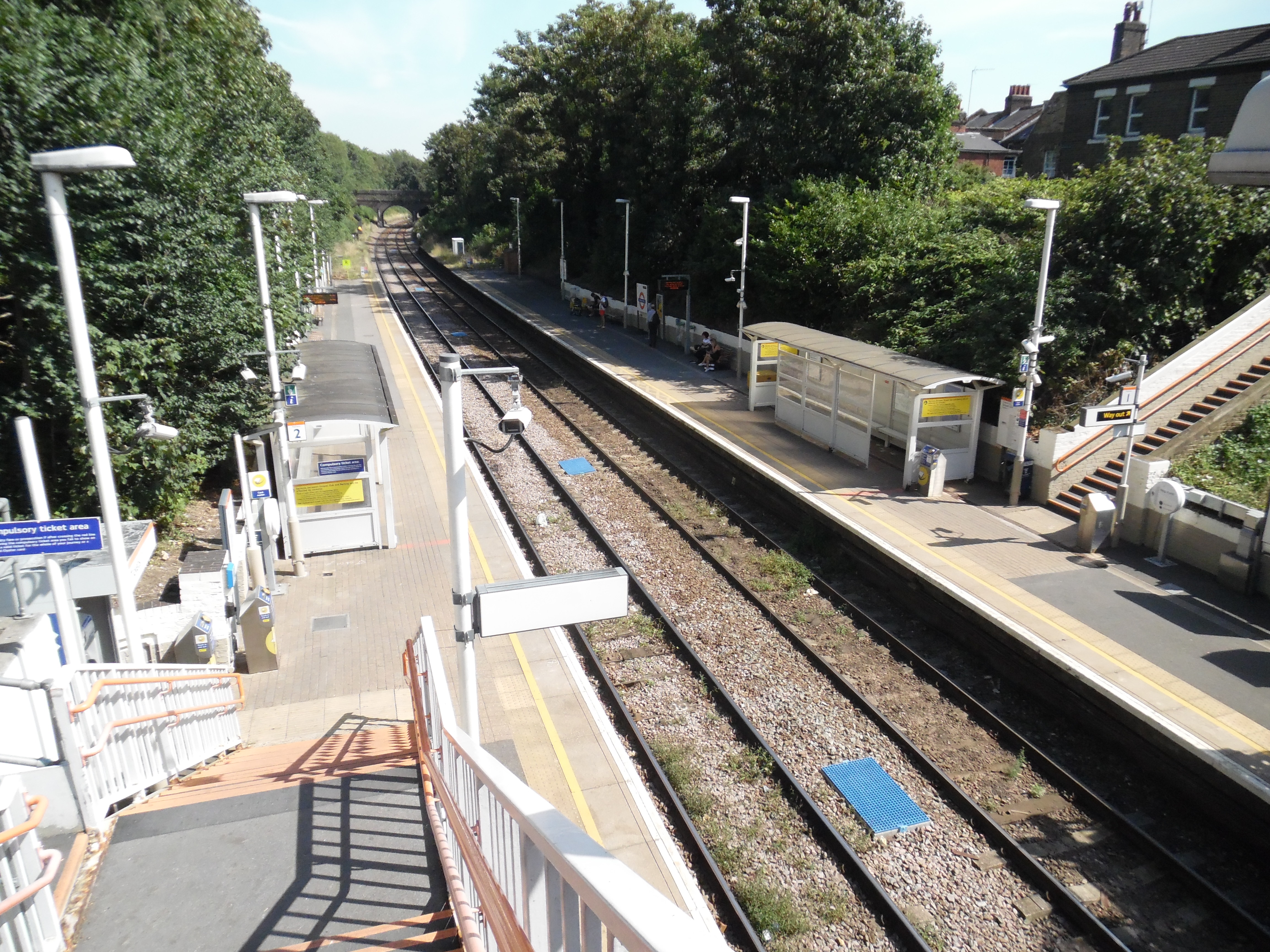 An overhead view of crouch hill station on the overground made on Holiday in England at 25AUG2016